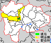 Location Map of Showa in Yamanashi Prefecture, Japan